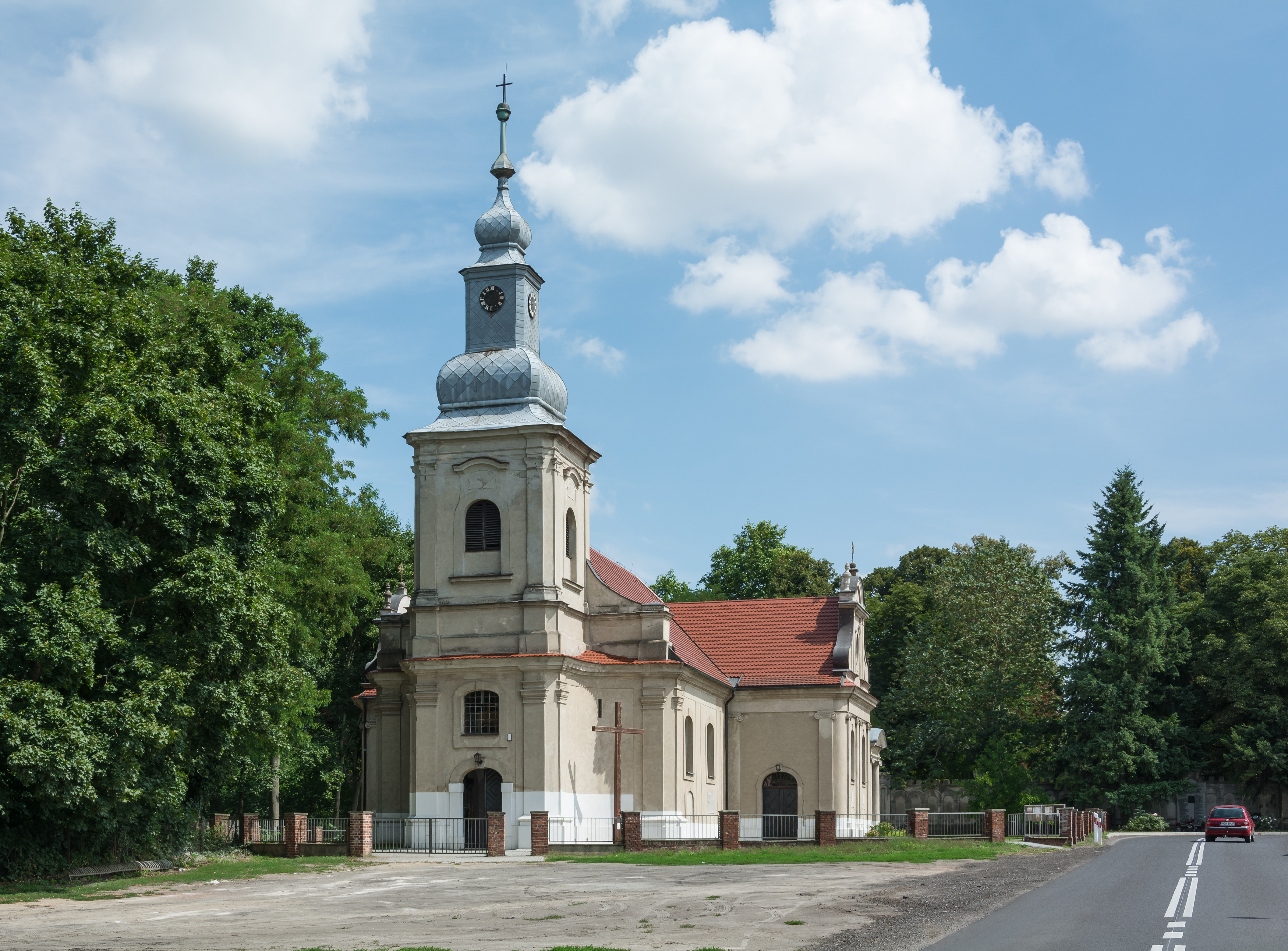 Saint Stanislaus church in Gościeszyn